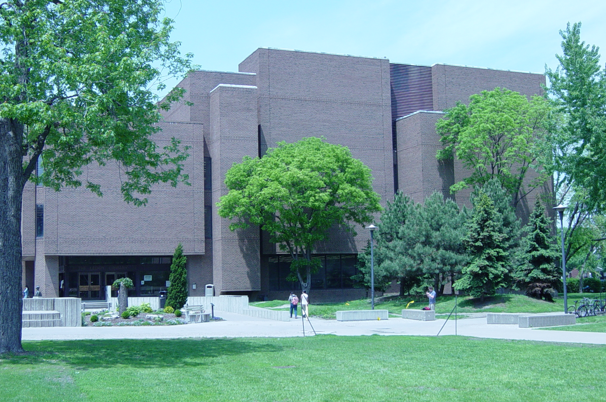 The Leddy Library is the main campus library for the University of Windsor.